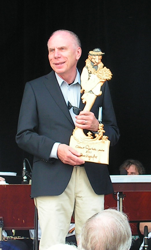 The Swedish Journalist and writer got the Albert Engström-price August 12, 2011.